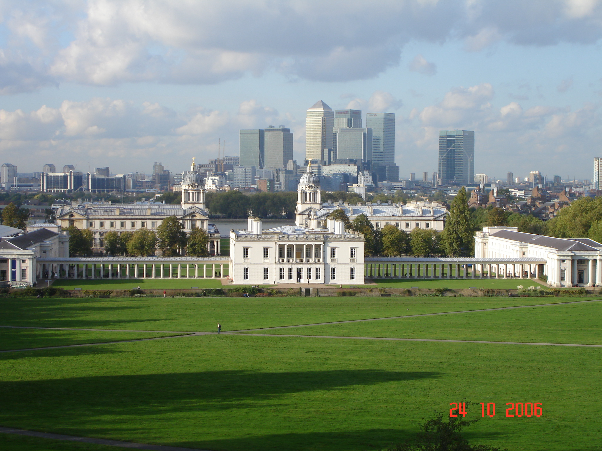 Greenwich Park in London (Queen's House and skyscrapers of Canary Wharf)